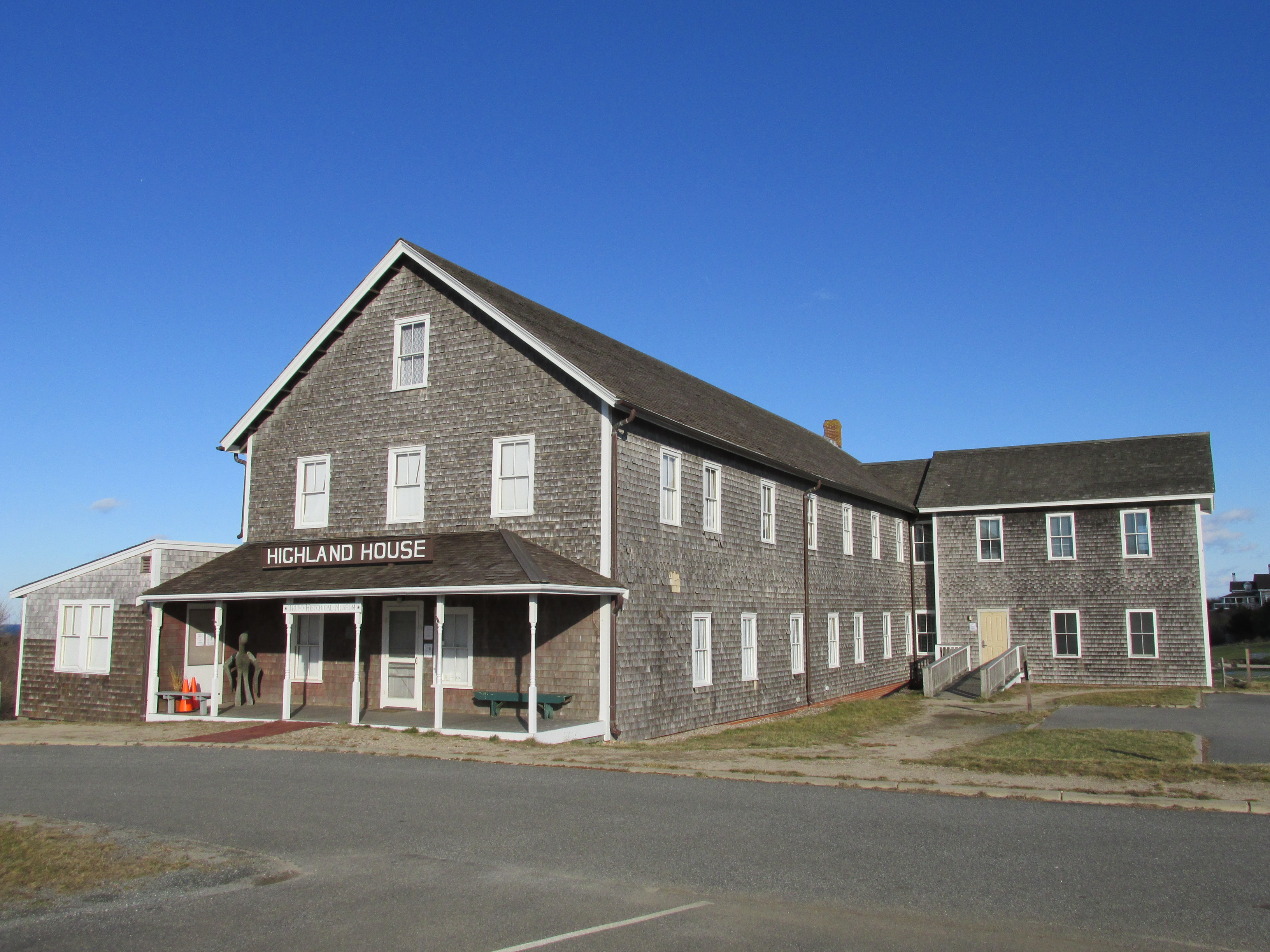 Highland House, North Truro Massachusetts - MACRIS Listing